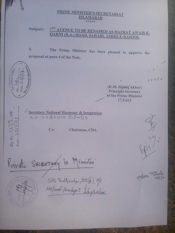 Rename 7th Avenua to Owaiz Qarni (RA)